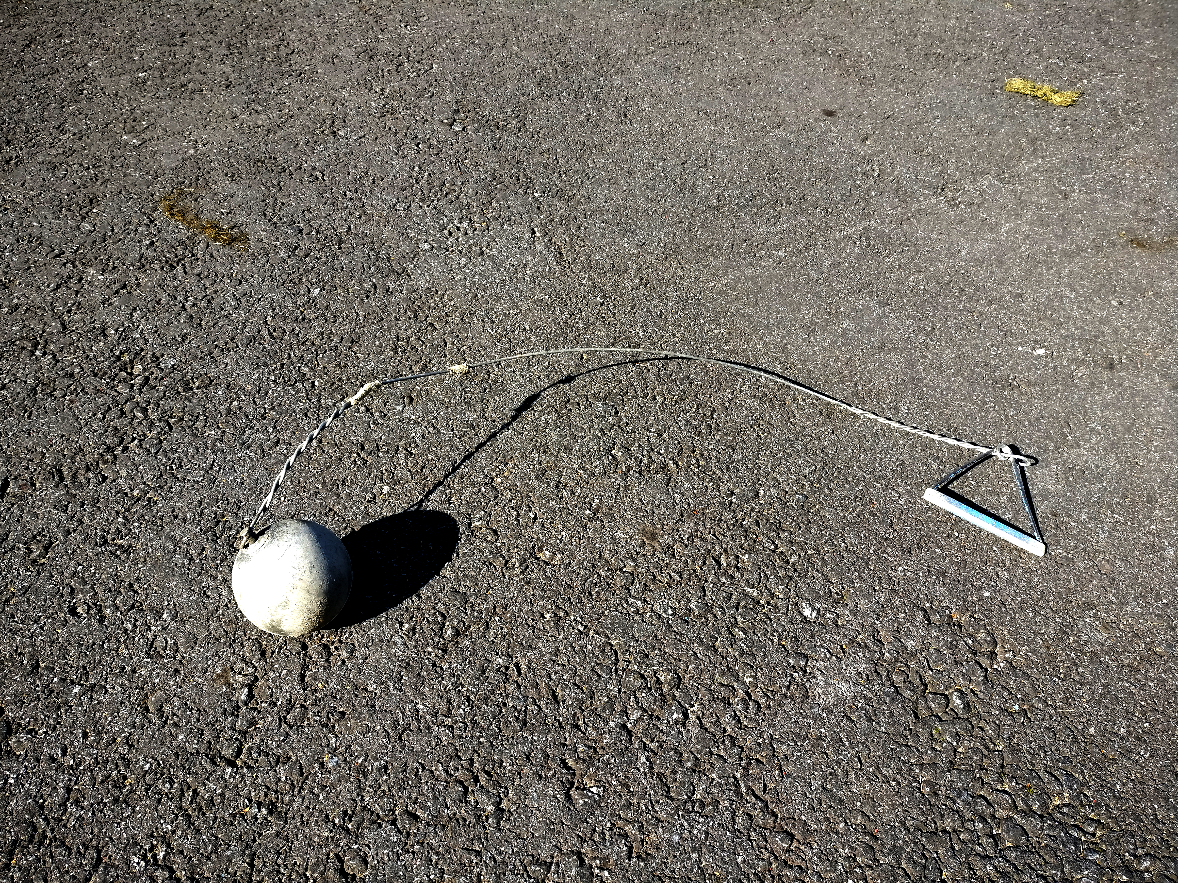 Hammer throw ball.